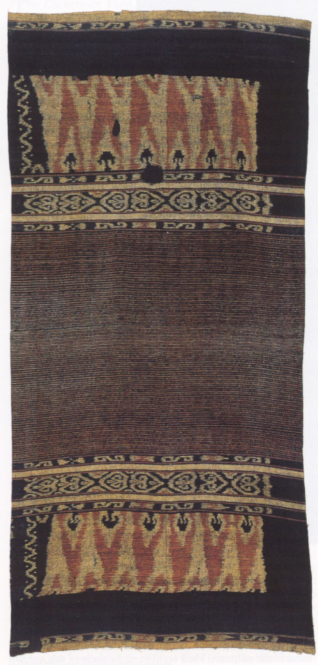 Woman's cerimonial skirt, Tanimbar Islands, Indonesia, 18th century, cotton with warp ikat, Honolulu Academy of Arts